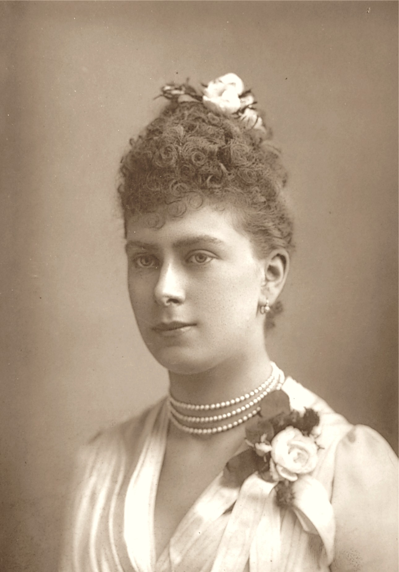 Queen Mary